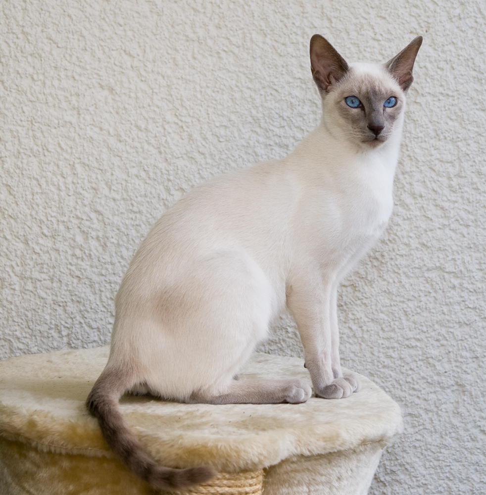 8 month old Siamese cat, with lilac points, facing right